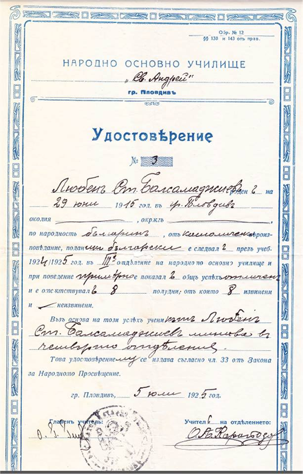 Certificate issued to Lyuben Balsamadzhiev by the St. Andrew People's Primary School in 1925